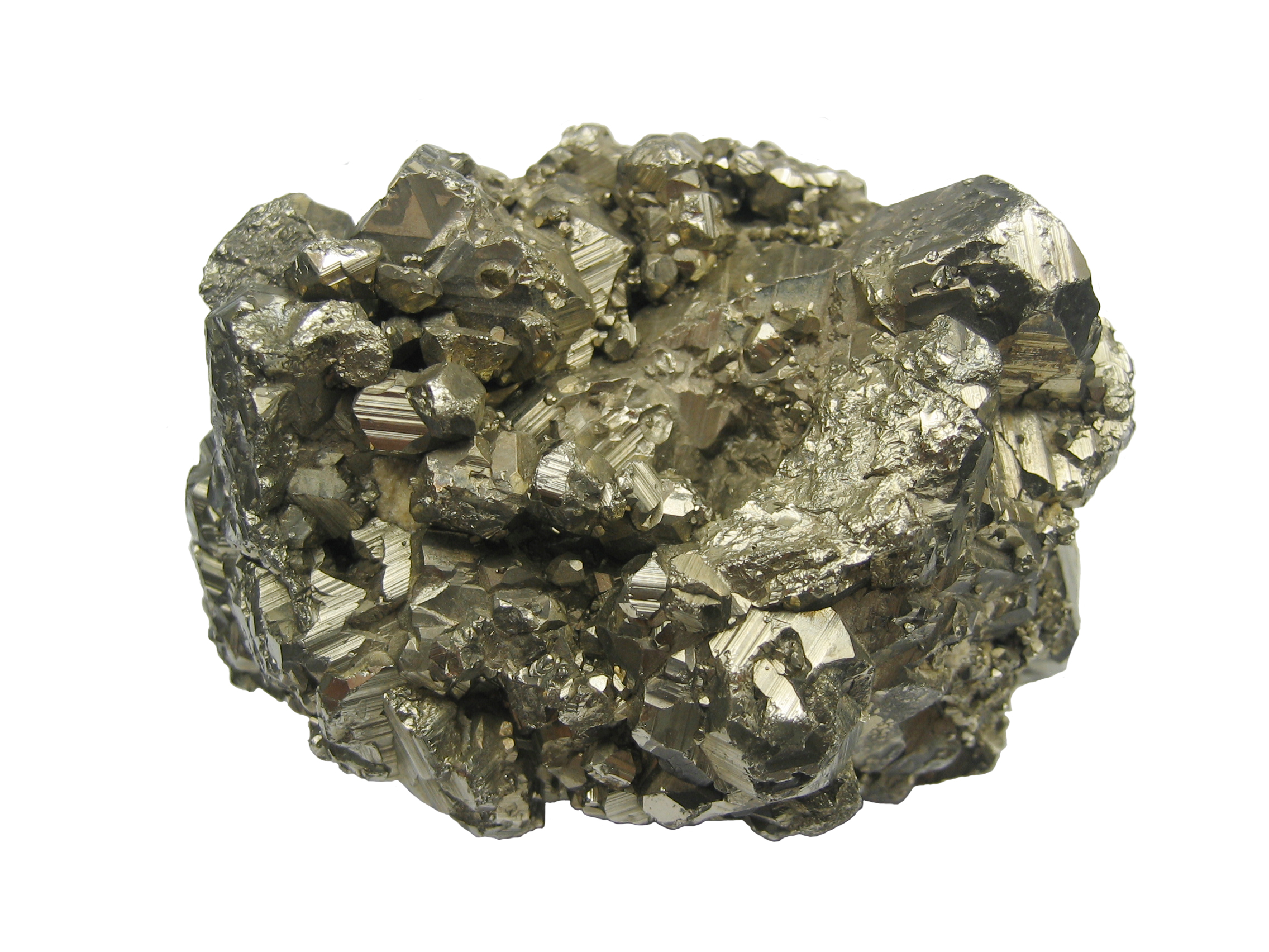 Macro of Pyrite (Fools Gold). It is about 4 inches in width.